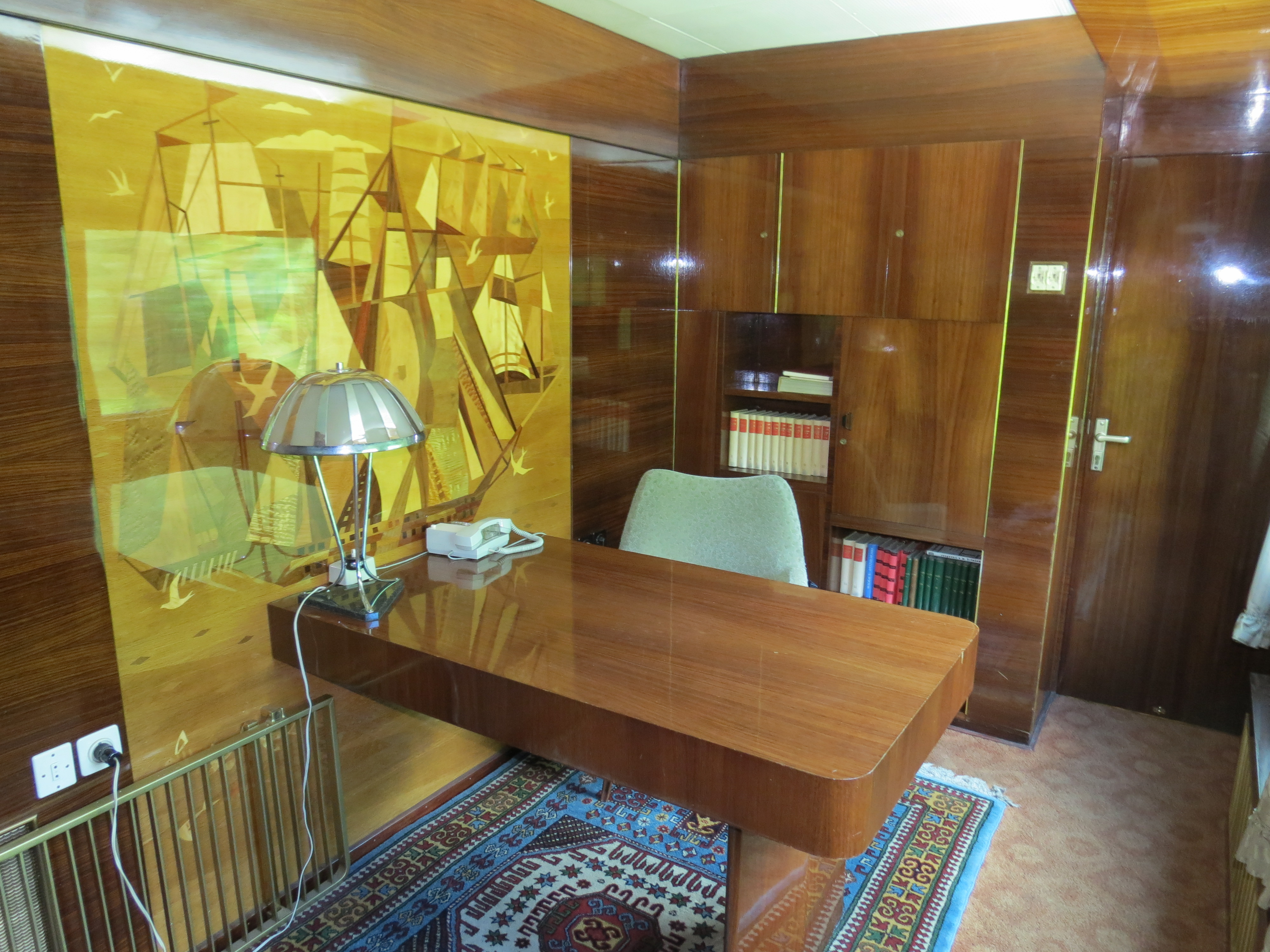 The office of Yugoslav President Josip Broz Tito in his blue private train.